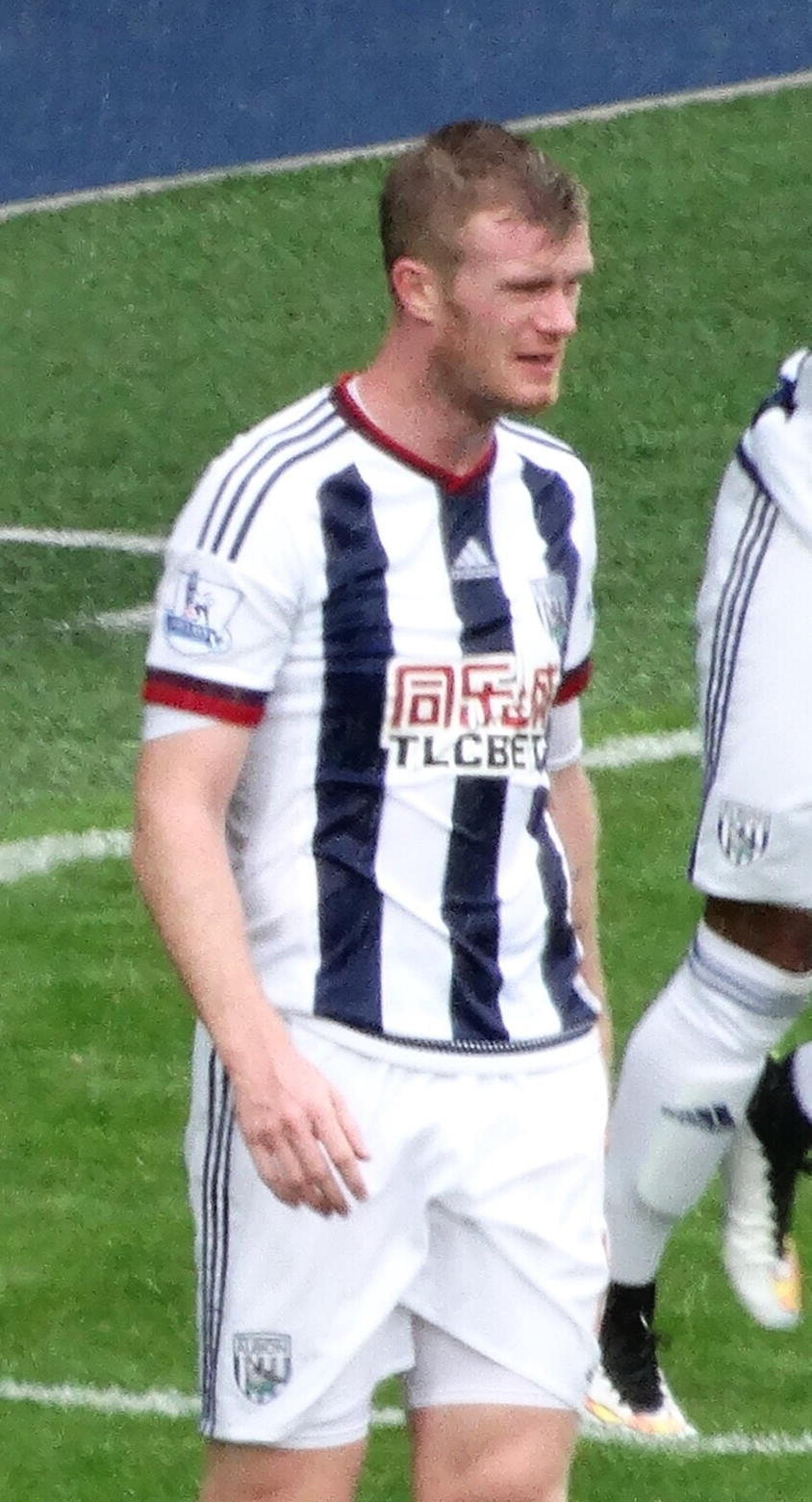 Chris Brunt playing for West Bromwich Albion against Chelsea at the Hawthorns, West Bromwich on 23 August 2015